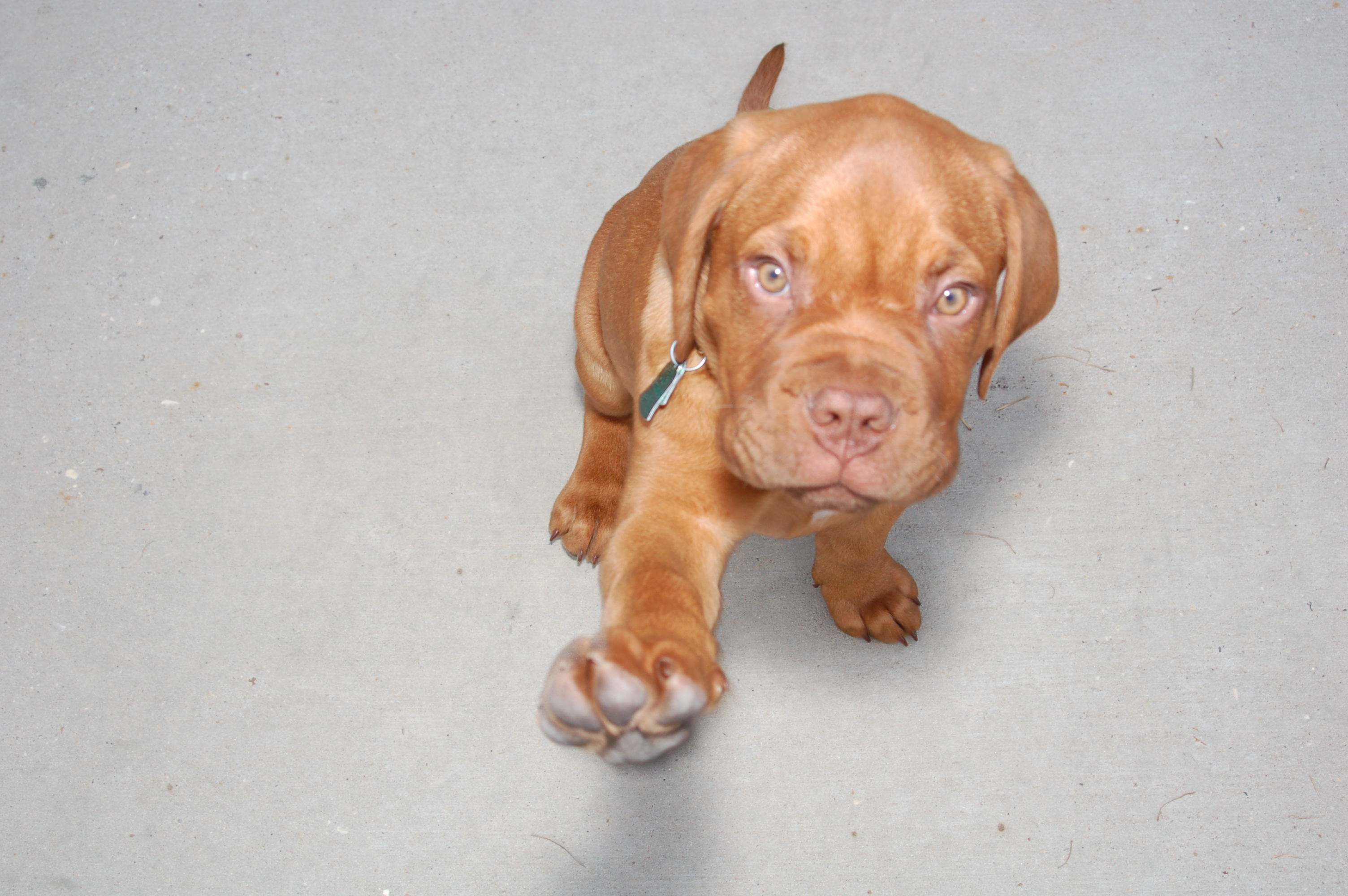 Gibson the DDB